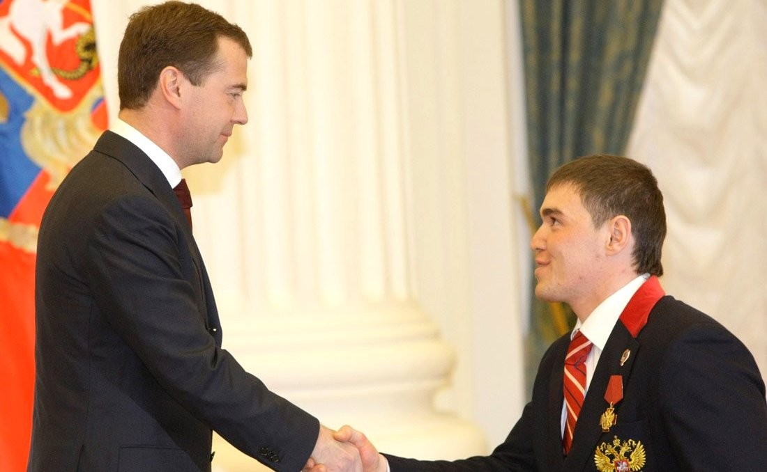 Russian President Dmitry Medvedev and Russian sportsman Irek Zaripov at award ceremony